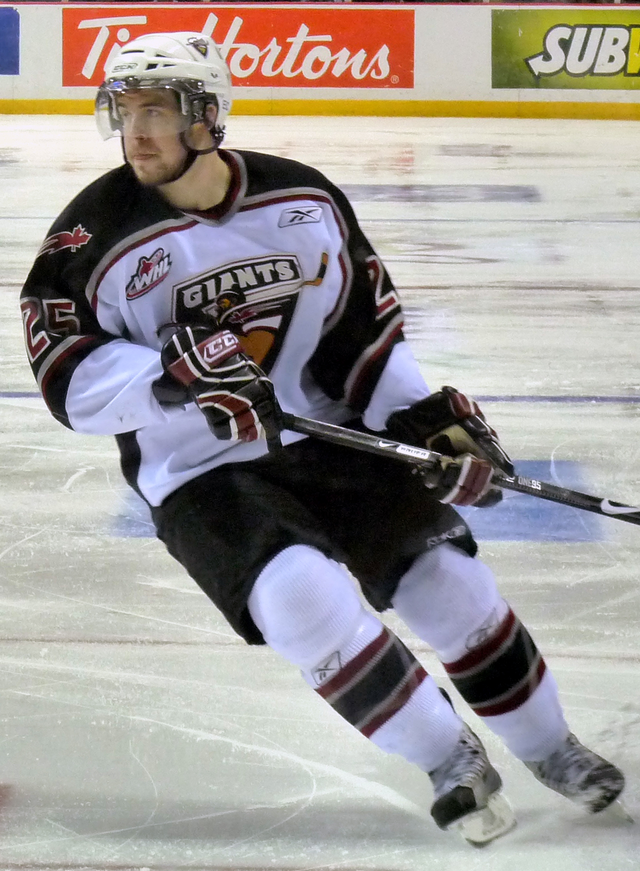 Vancouver Giants defenceman Nick Ross during Game 7 of the second round of the 2009 WHL playoffs against the Spokane Chiefs.